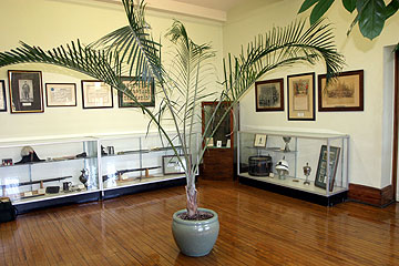 Queen's Own Rifles Museum, Casa Loma, 1 Austin Terrace, Toronto, Ontario, Canada.